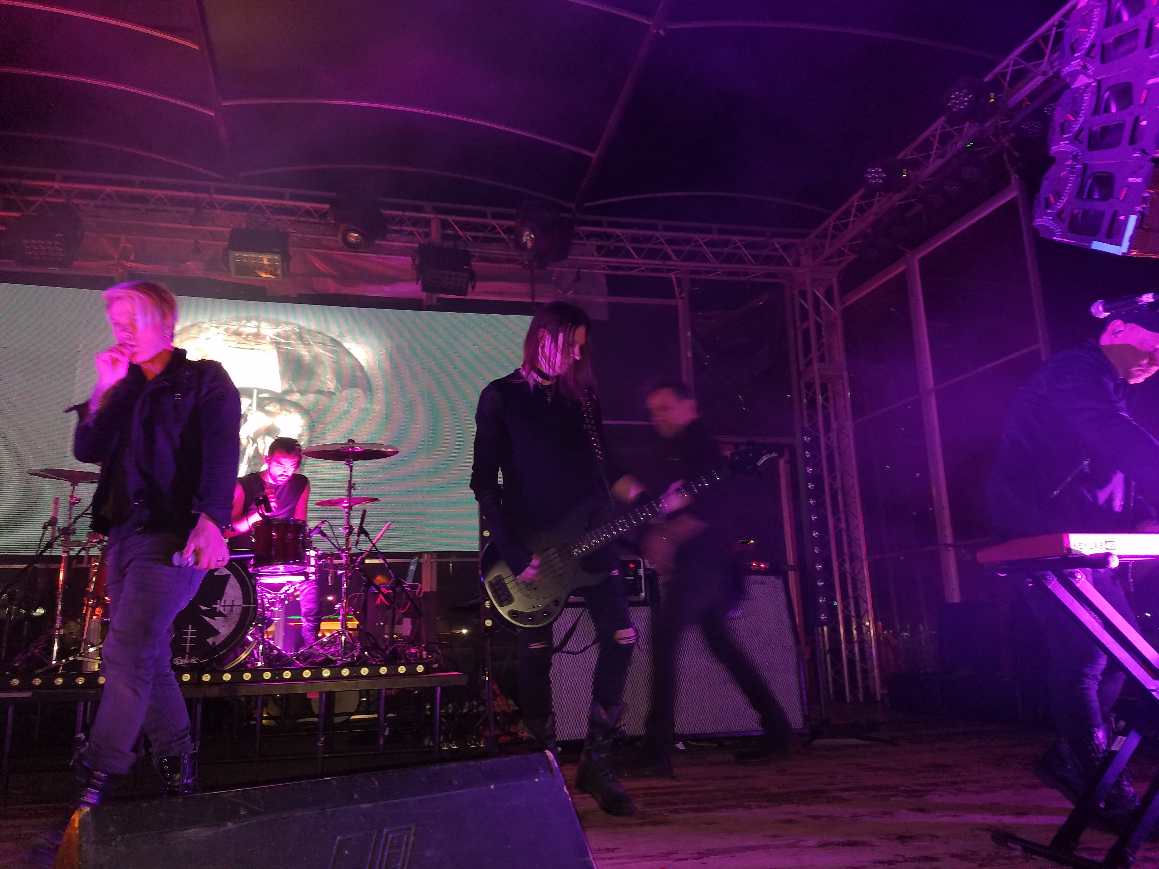 Stabbing Westward performing in 2018